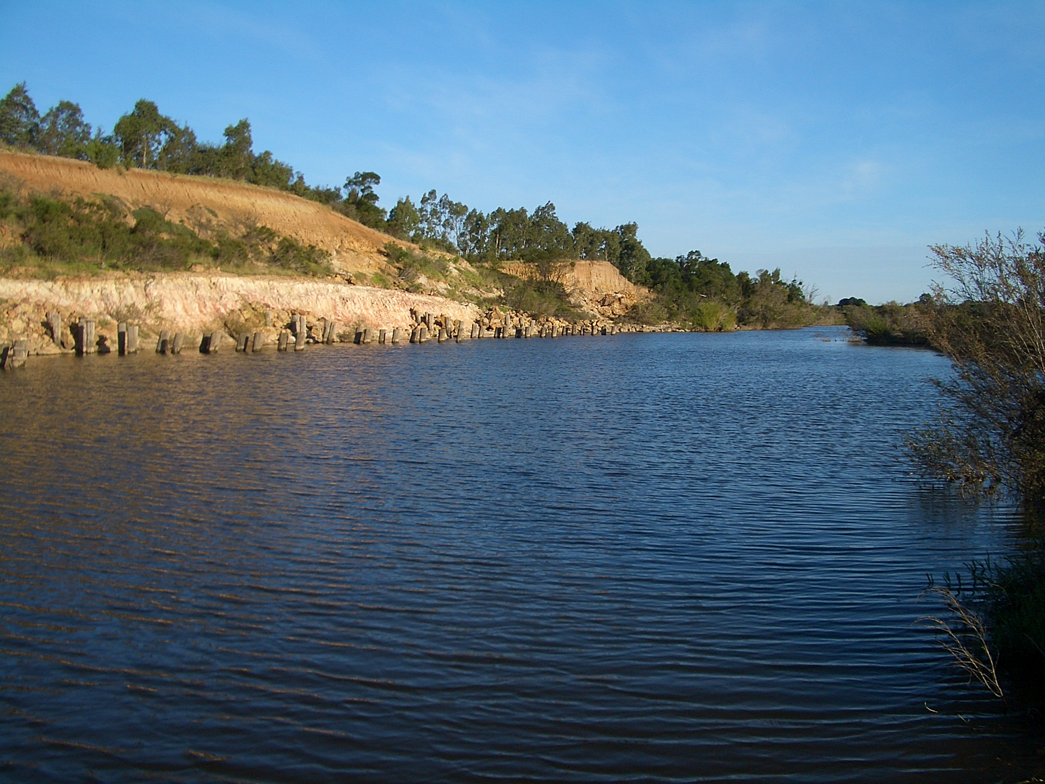 The Avon River, just SE of Stratford, in Gippsland, Victoria, Australia